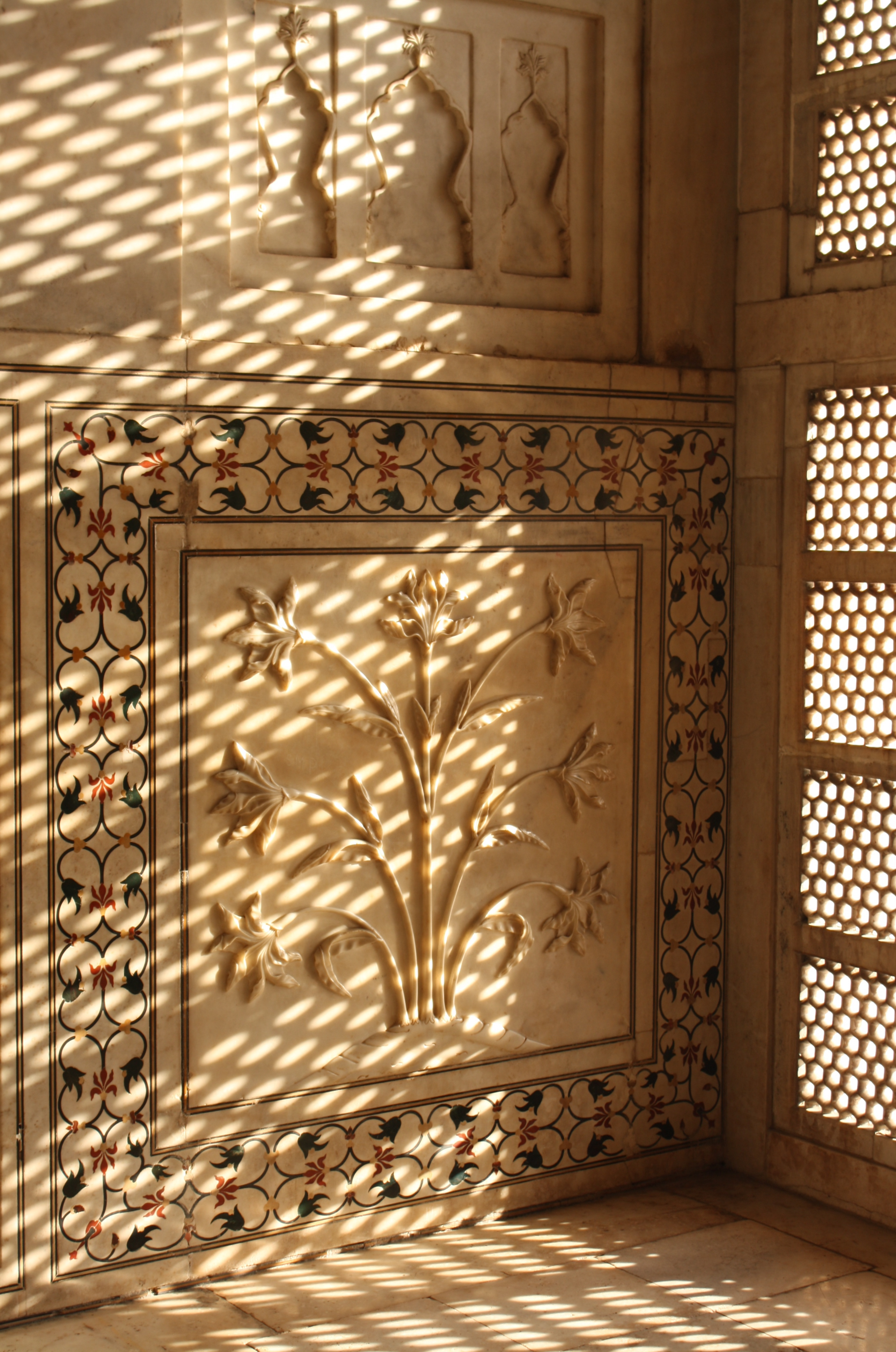 Flowers in Marble, the Taj Mahal, Agra, Uttar Pradesh.